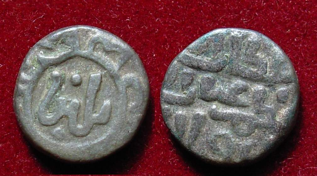 this is a copper coin of Giyaz uddin balban. from the Slave Dynasty that is in my personal collection. My email id is